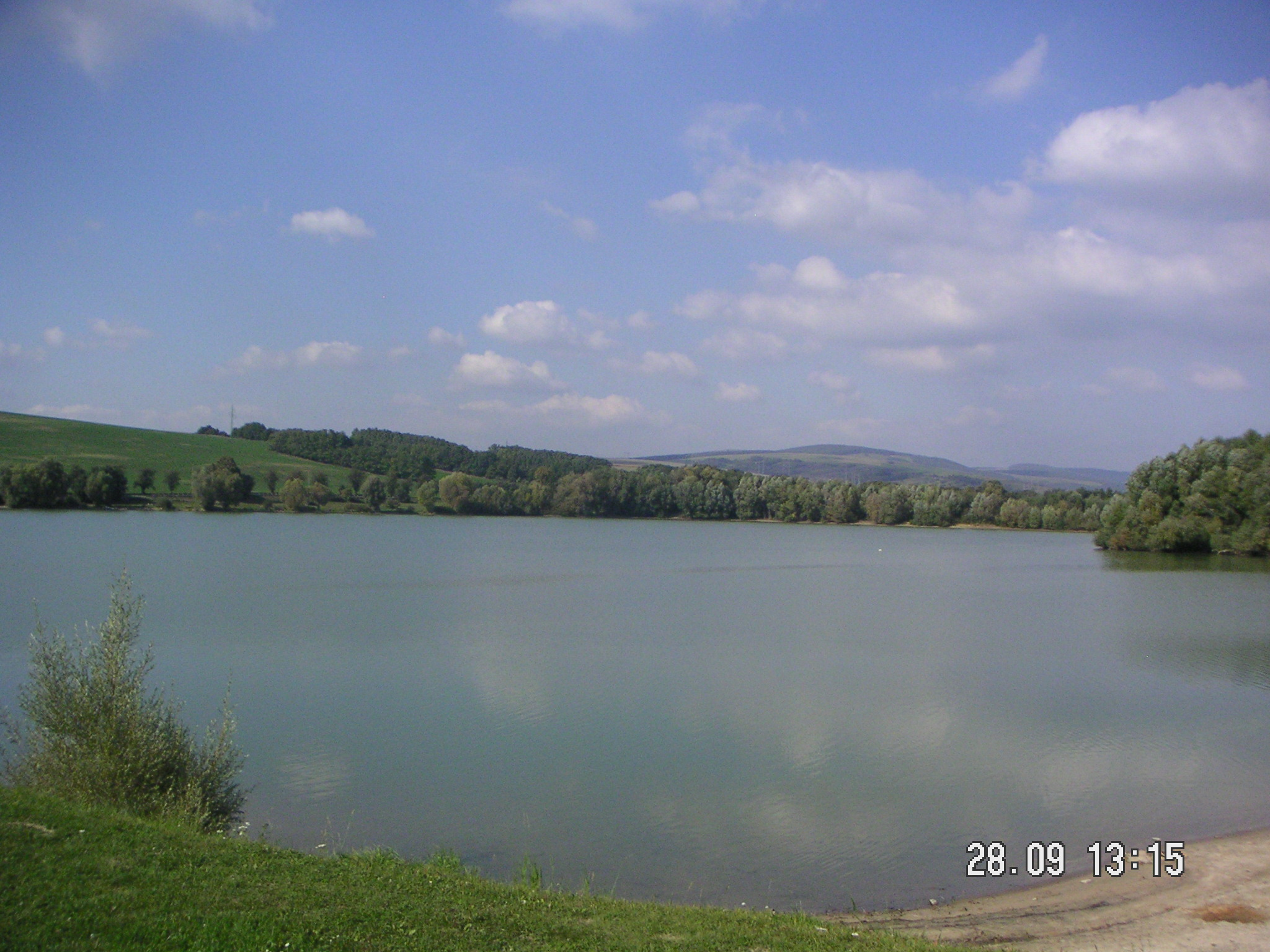 Kunov dam